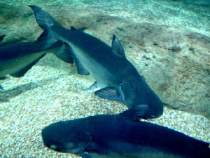 Mekong giant catfish (Photo in Gifu World Fresh Water Aquarium by Carkuni (talk))